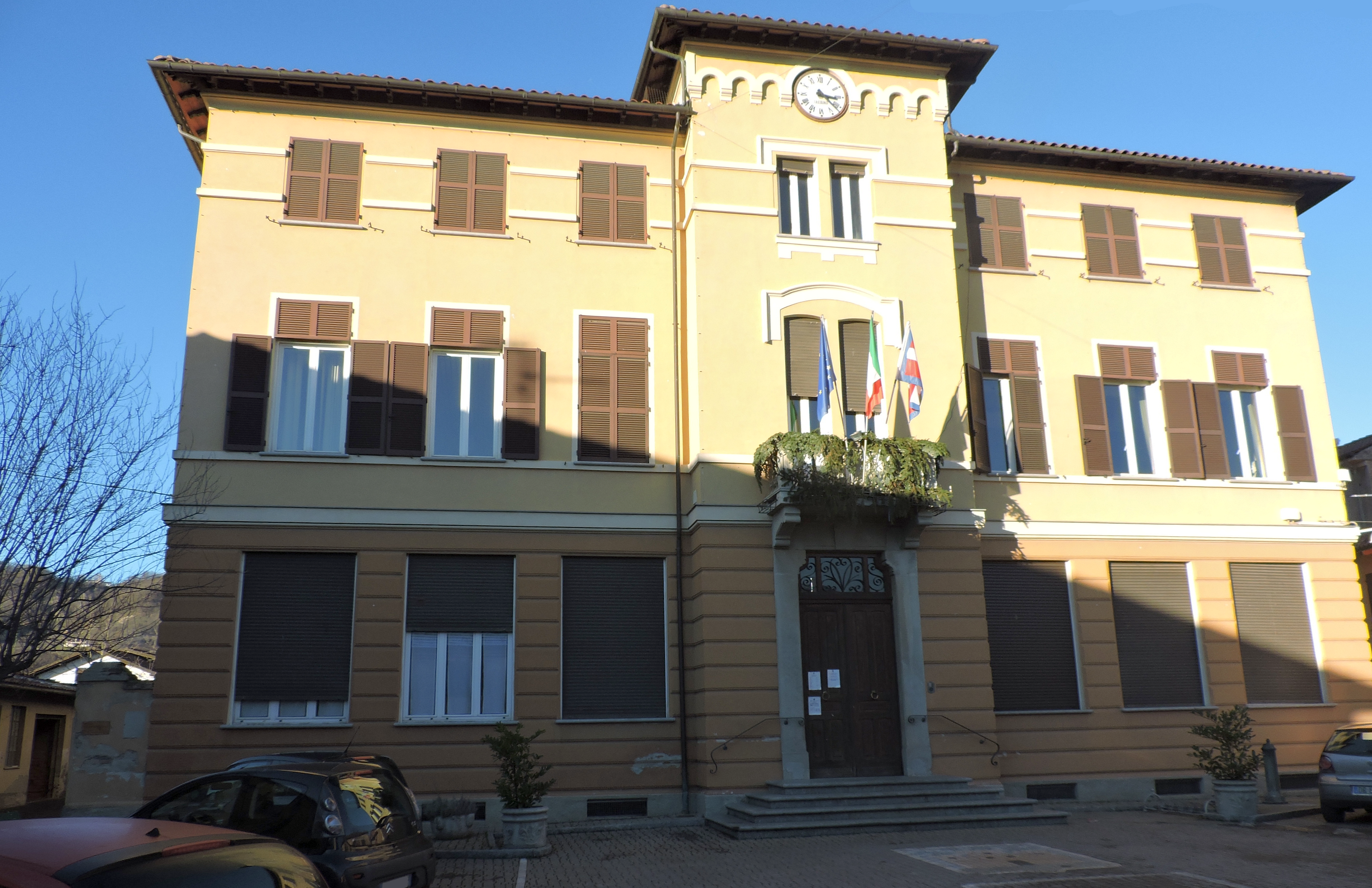 Borghetto di Borbera (AL, Italy): town hall